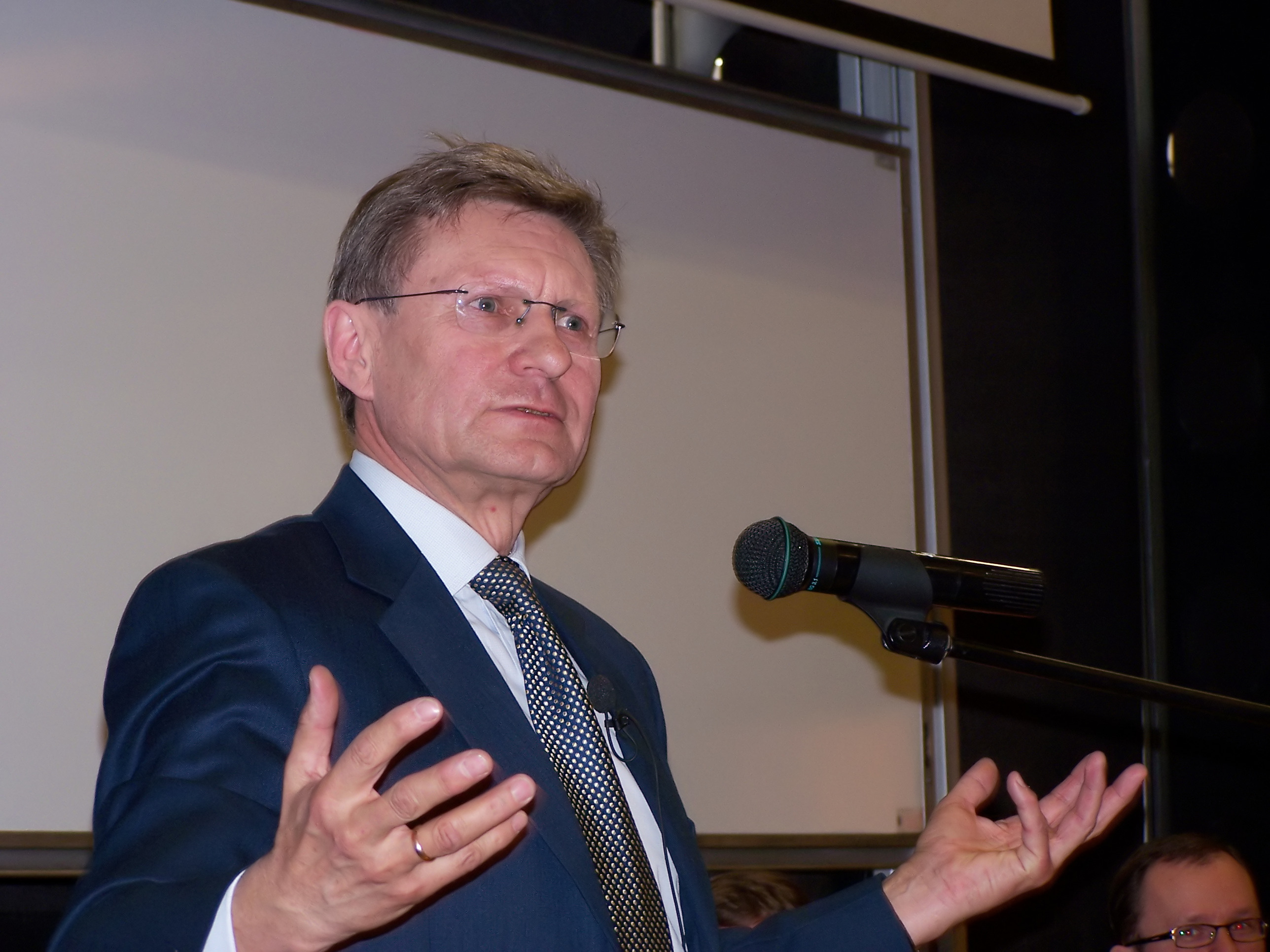 Leszek Balcerowicz.